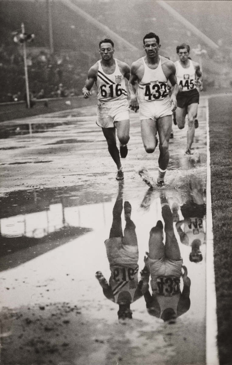 'Decathlon reflections', Olympic Games, London, 1948. (7649948104).jpg , Daily Herald Archive at the National Media Museum